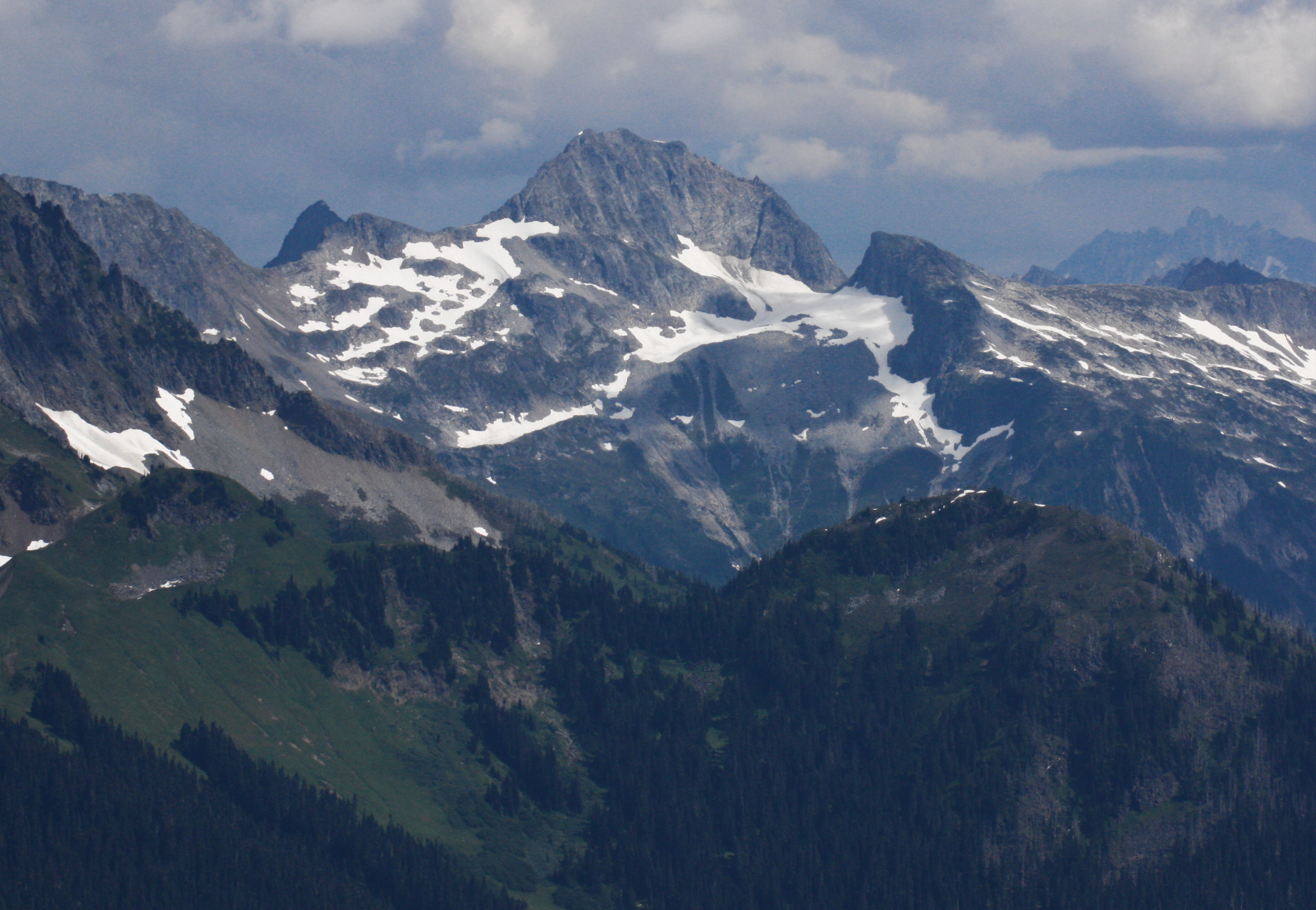 Hurry-up Peak (2383 m, 7821 ft) Viewpoint location: Hidden Lake Trail, North Cascades National Park Viewpoint elevation: 1794 meter (5885 ft) View direction: 120° Location source: Garmin GPSmap 60CSx Location Datum: WGS84